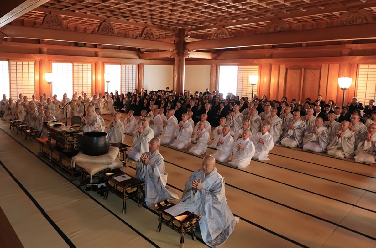 The 68th High Priest of Nichiren Shoshu officiating Ushitora Gongyo for newly trained young priests.